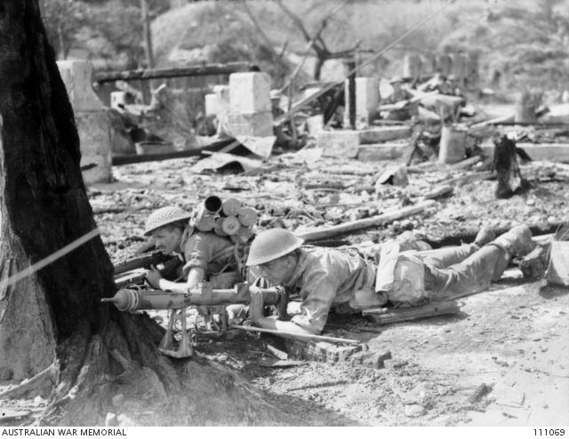 IWM caption : SX27501 Private (Pte) Aubrey Carl Kotz (left) and Pte W Spence (right), members of 7 Platoon, A Company, 2/10 Battalion take cover behind a tree in the town area with their PIAT (Projector, Infantry, Anti Tank) gun during the Oboe 2 Operation. Comment : This was part of the Battle of Balikpapan.